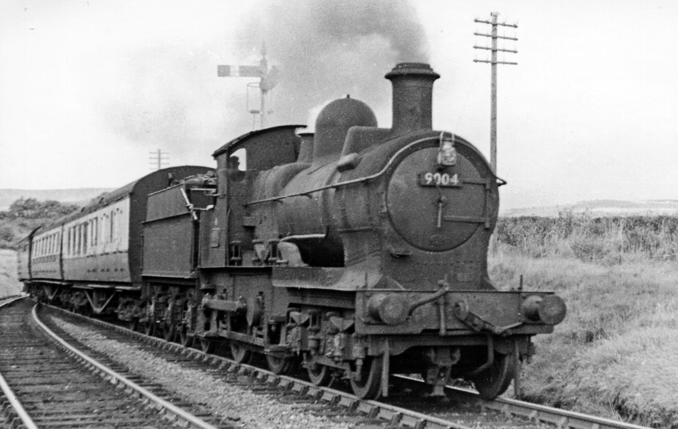 Aberystwyth - Shrewsbury train at Talerddig. View NW, towards Machynlleth etc.; ex-Cambrian Whitchurch - Oswestry - Welshpool - Machynlleth - Aberystwith/Barmouth - Pwllheli main line. The 12.00 Aberystwyth - Shrewsbury stopping train is entering the loop at Talerddig and will turn off beyond Welshpool at Buttington onto the ex-GW&LNW Joint line to Shrewsbury. The locomotive is 'Dukedog' 4-4-0 No. 9004 built in 8/36 as No. 3204 from 'Duke' No. 3271 and 'Bulldog No. 3439, named 'Earl of Dartmouth' for a few months only, renumbered 9004 in 7/46 and withdrawn 6/60. I was travelling in an ex-GW Diesel railcar on a Special hired to convey members of the (pioneer) Talyllyn Railway Preservation Society from Paddington to Towyn for their 1953 Annual General Meeting, which was a splendid way to see the Cambrian Coast route from London - except that the railcar broke down in the middle of the night on the return journey.